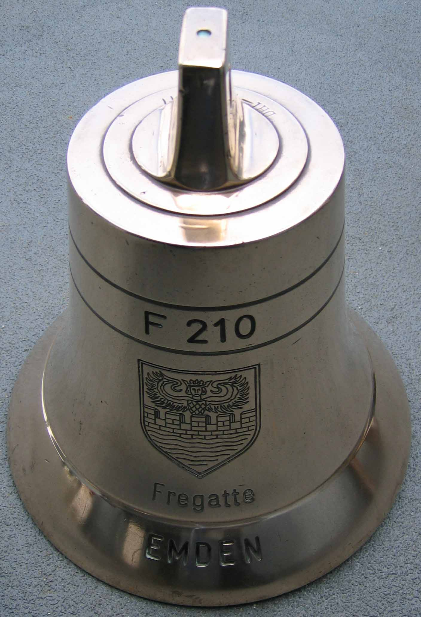 The ship’s bell of the German Navy frigate Emden (F210)